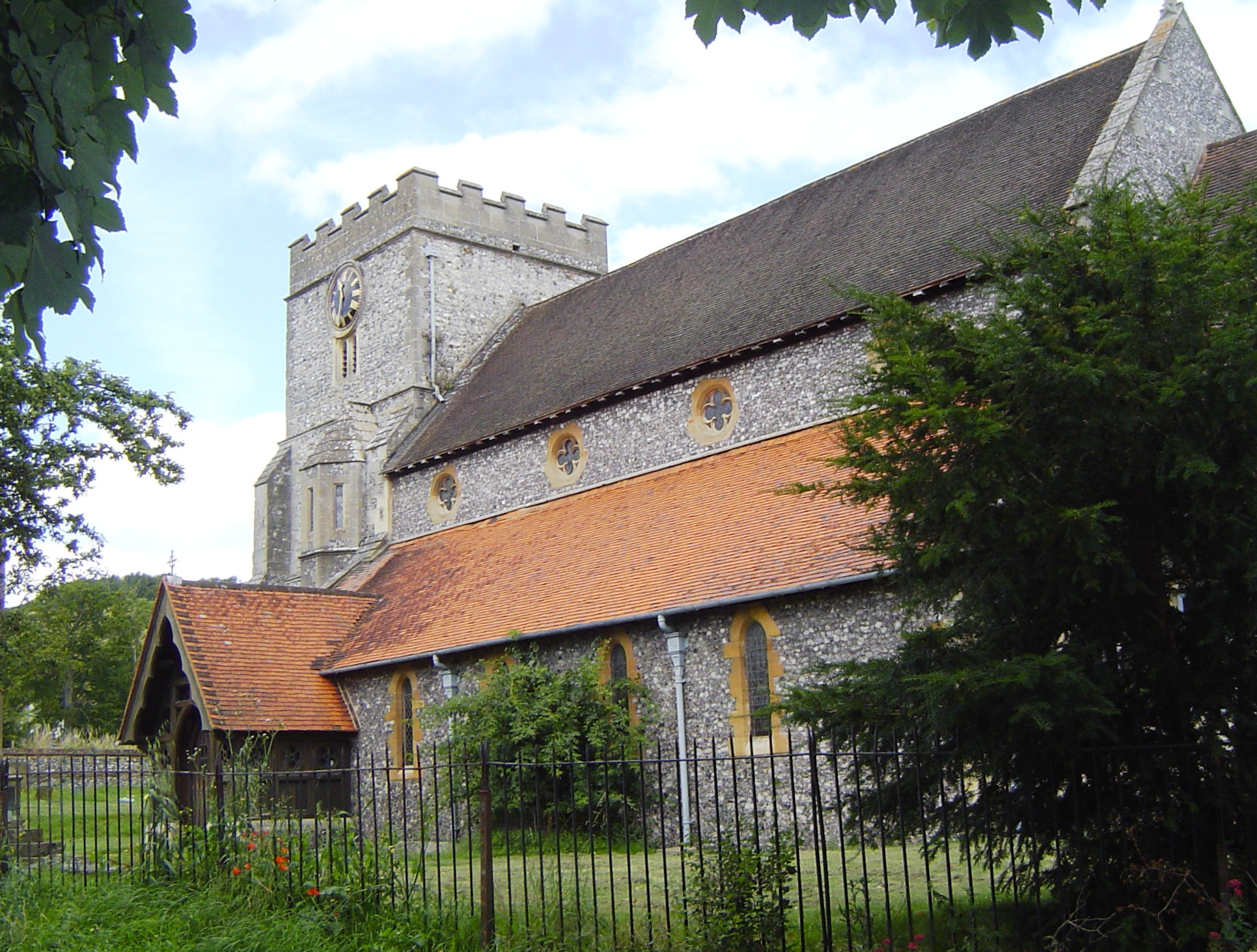 Church at Streatley, Berkshire